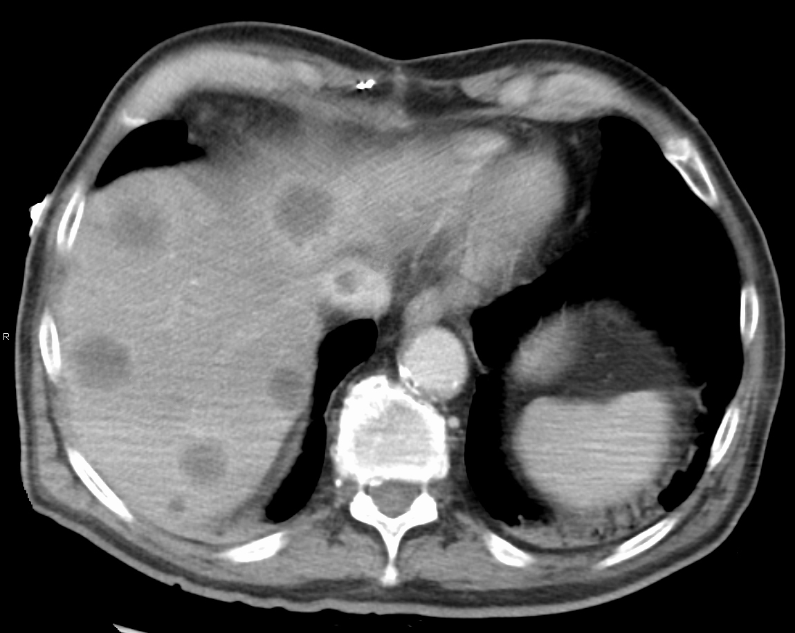 Budd Chiari Syndrome (note clot in the IVC and the metastases in the liver). This is an edited version of the source image made for use in the "Anatomist" iOS and Android app and shared here under the terms of the source image's Share Alike Creative Commons license.